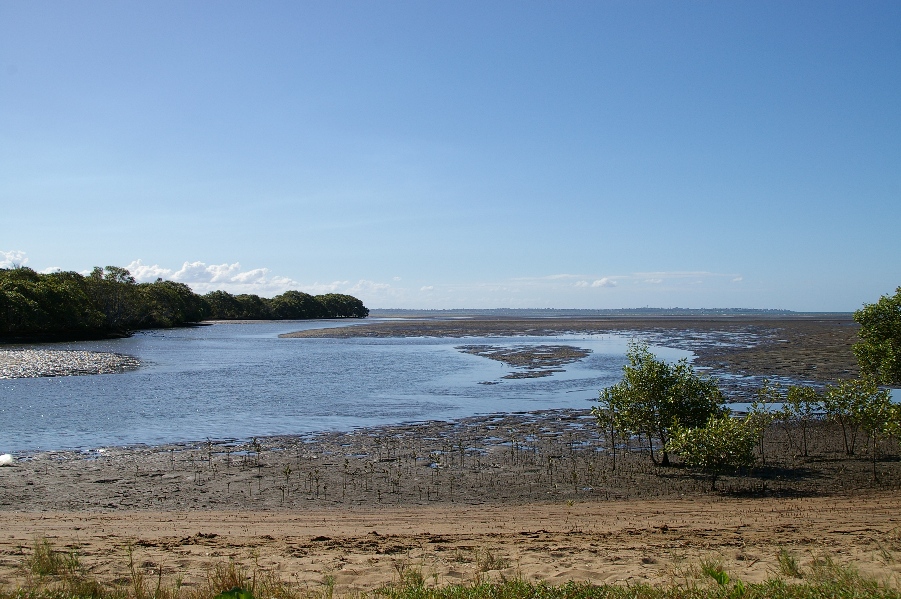 Avicennia marina, commonly known as grey mangrove, is distributed along Africa's east coast, south-west, south and south-east Asia, Australia and New Zealand. In Bramble Bay it is the commonest and dominant element of most mangrove communities. Avicennia marina is usually a gnarled tree with distinctive peg like pnuematophores emerging from its underground roots. It is very adaptable and is a pioneer species following disturbances in the mangrove communities.